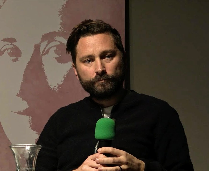 Canadian historian